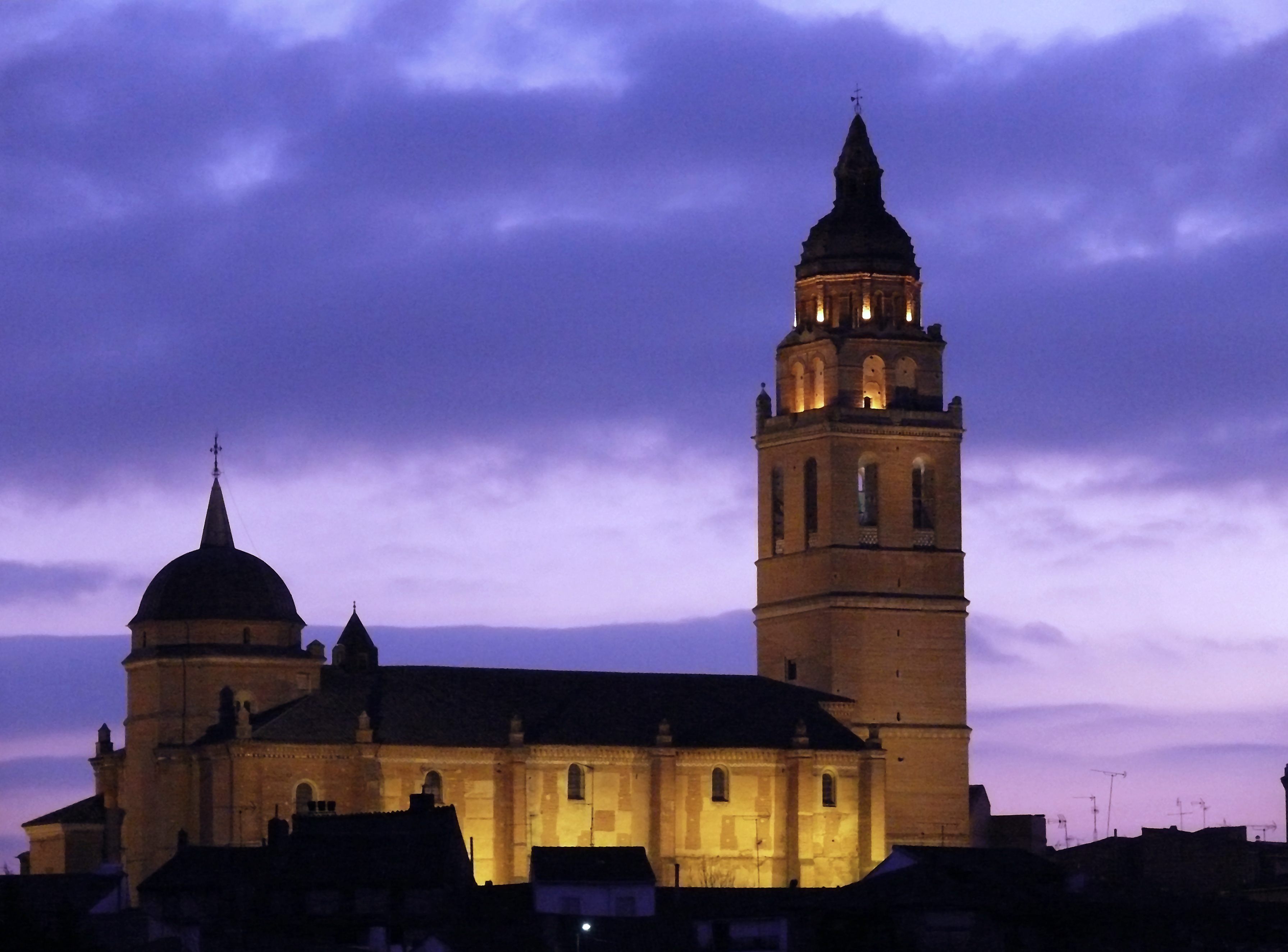 Alaejos (Valladolid, Spain), St. Mary's church